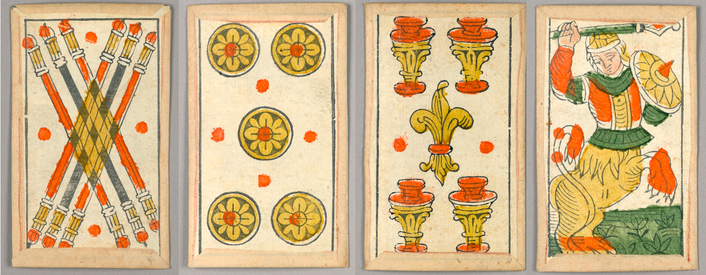 Original Minchiate cards and suits